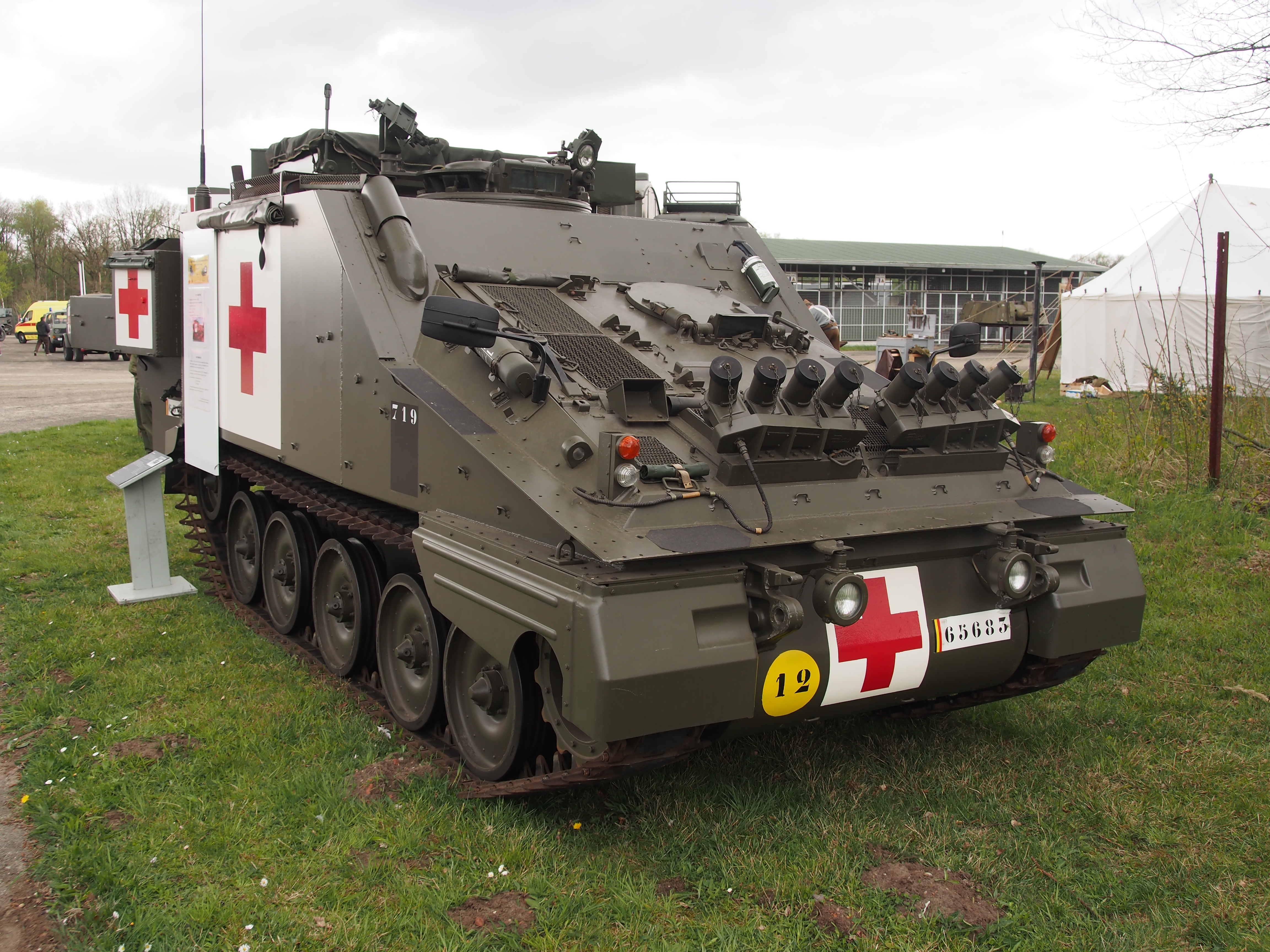 Photographed at the Gunfire Artilleriemuseum Brasschaat, Belgium.